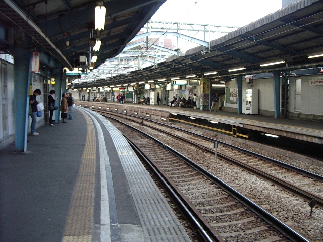 Hinodechou station on Keikyu-Main line.